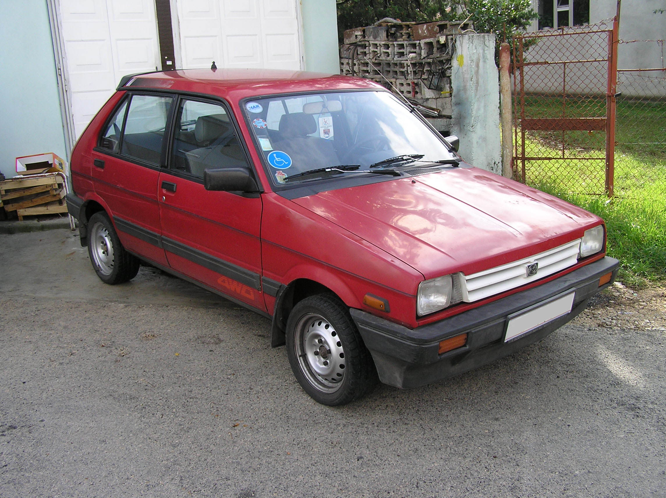 Subaru Justy 4WD first gen phase I